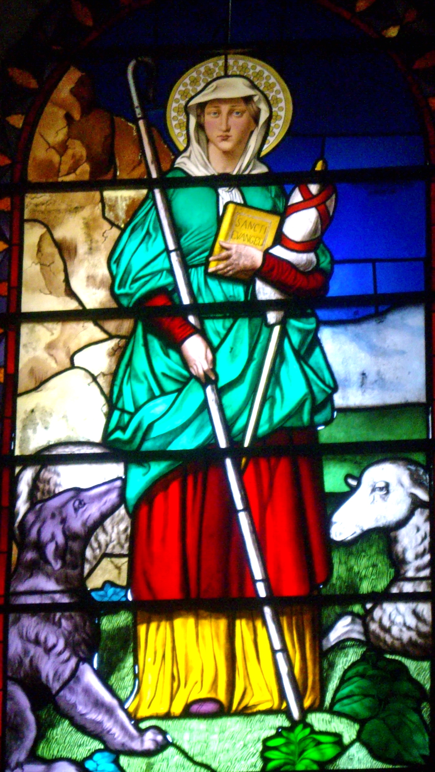 "Saint Florine" in Shepherdess. Stained glass window of the church of Mazoires which today holds the relics of Saint Florine